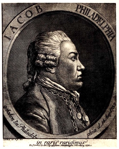 Image of the magician/scientist Jacob Philadelphia c. 1778